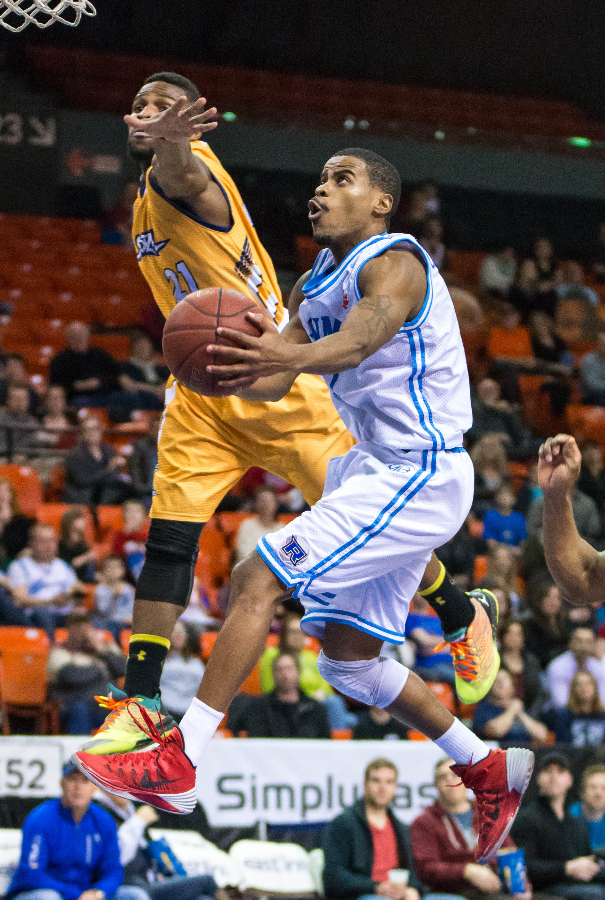 Cliff Clinkscales (rights) tries to get a layup in 2014